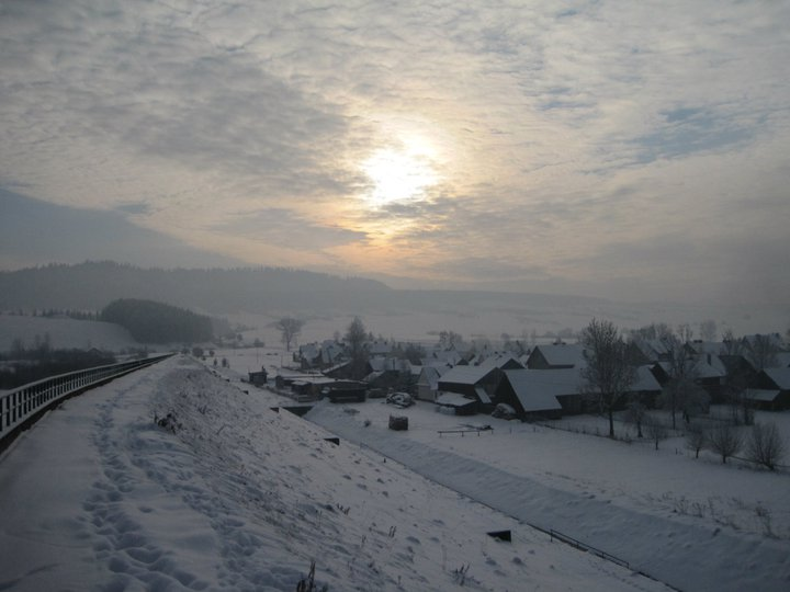 A picture of the village, Frydman, during winter.